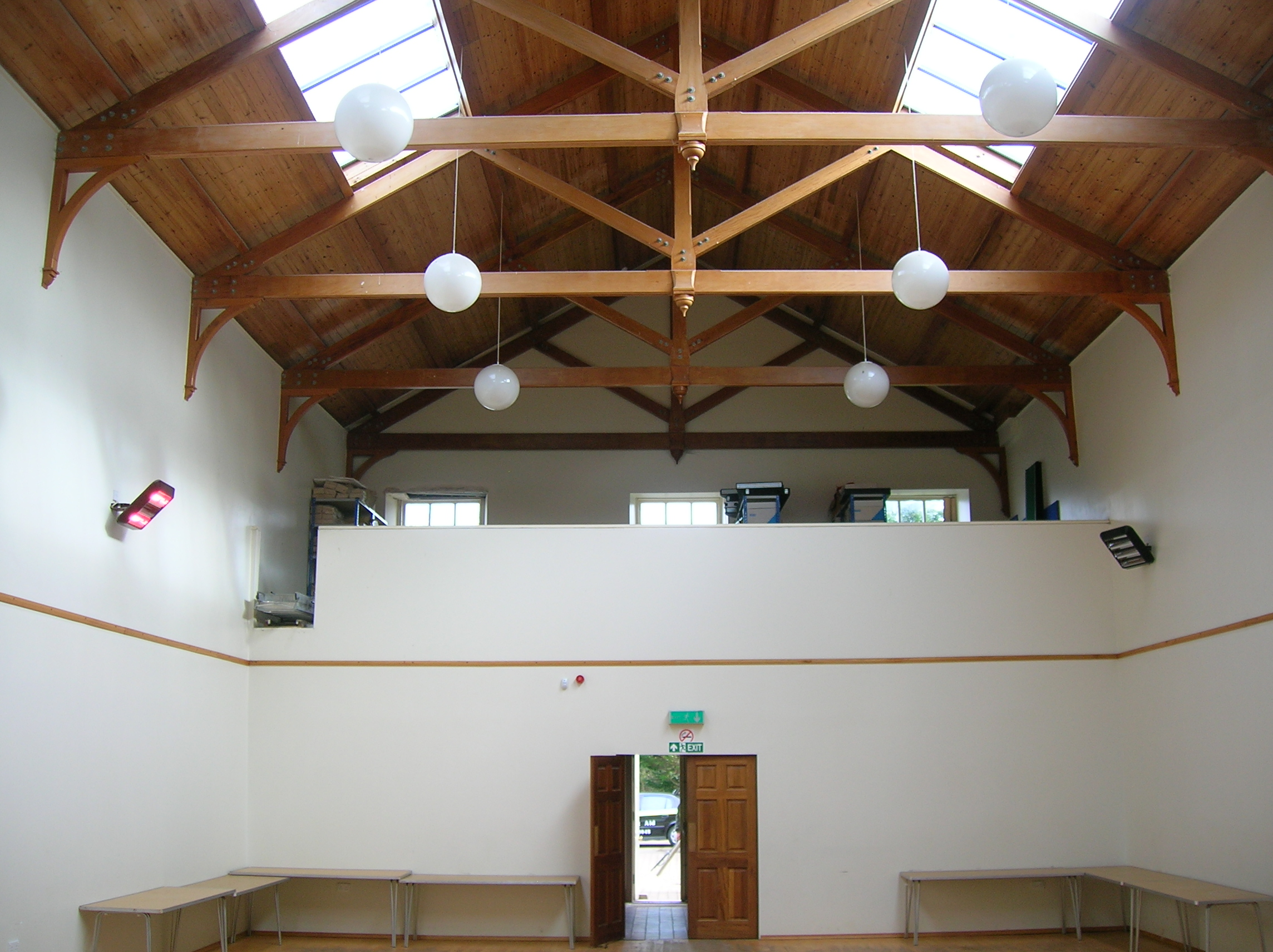 Eglinton Racquet Hall, Ayrshire, Scotland. Oldest Racquet court in the World and oldest covered sports hall in Scotland.